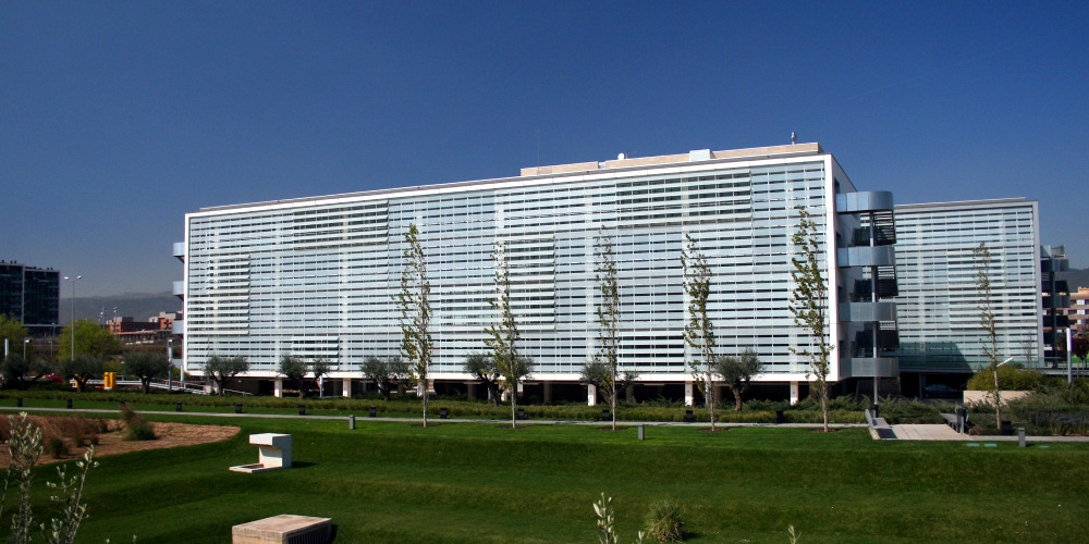 Viladecans Business Park